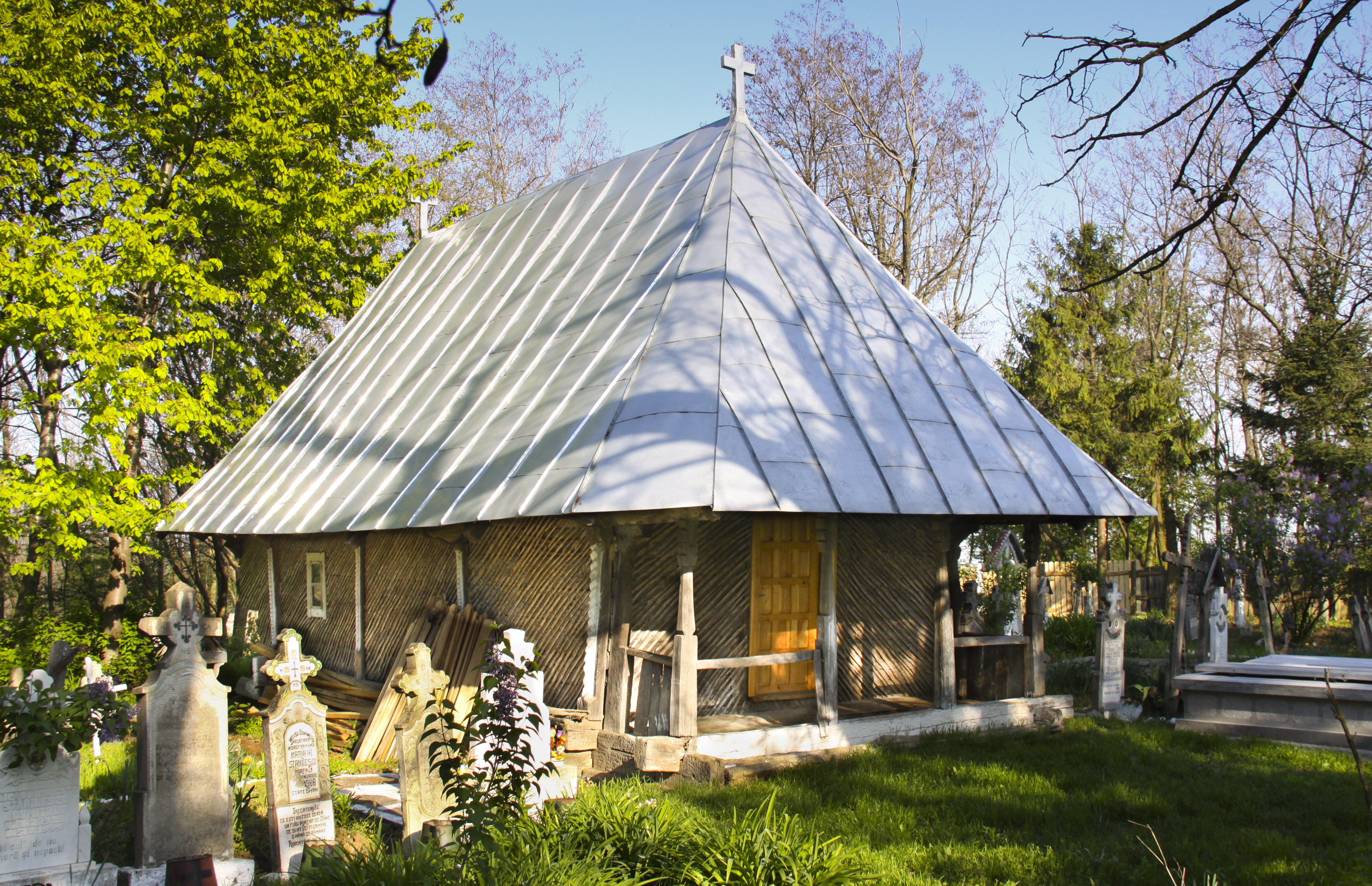 Scoraţa-Pietriş, Gorj county, Romania: the woden church.